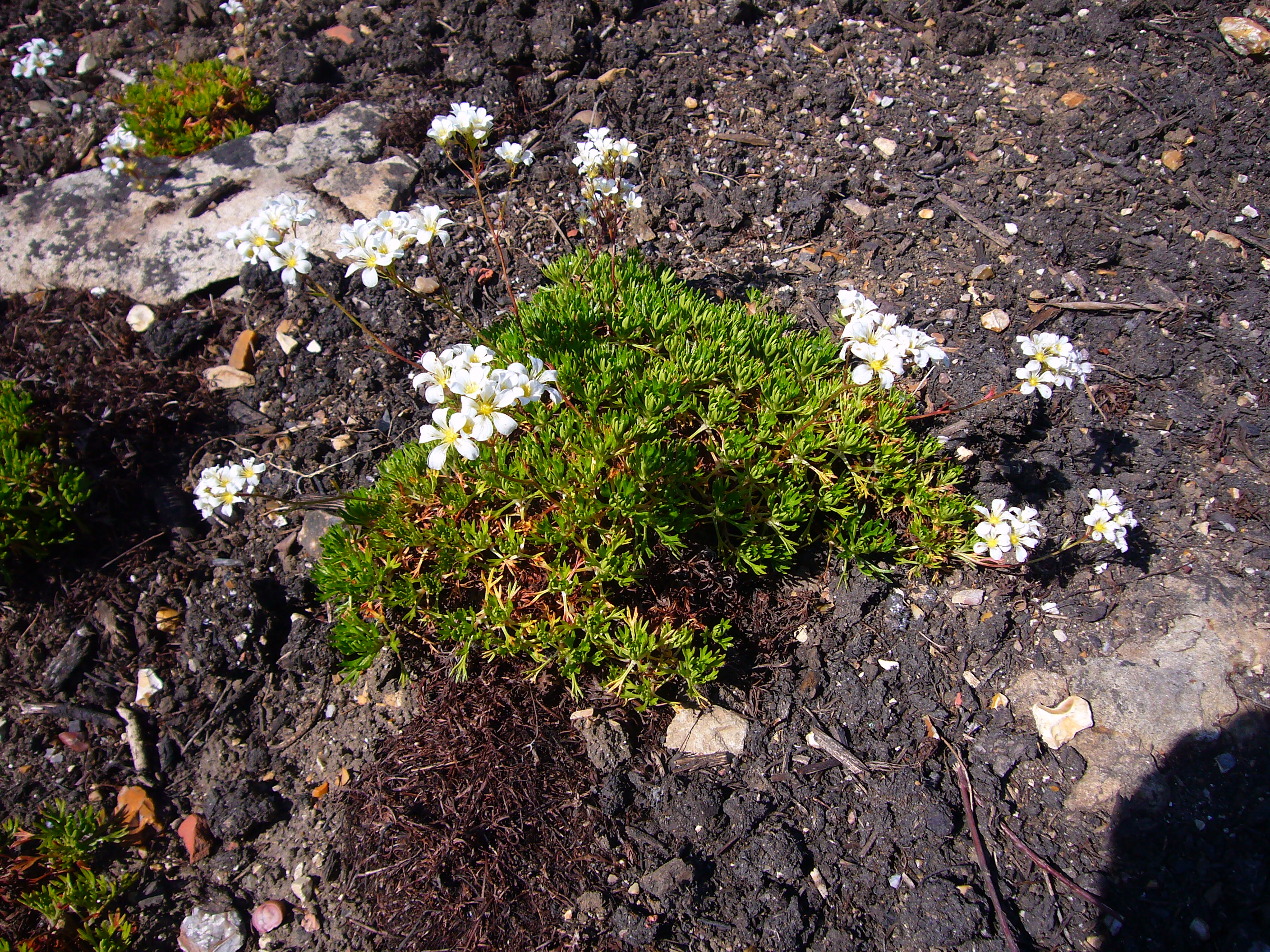 Saxifraga canaliculata (plant) (photo taken in the Cambridge University Botanic Garden)